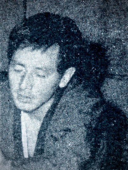 Kinji Fukasaku